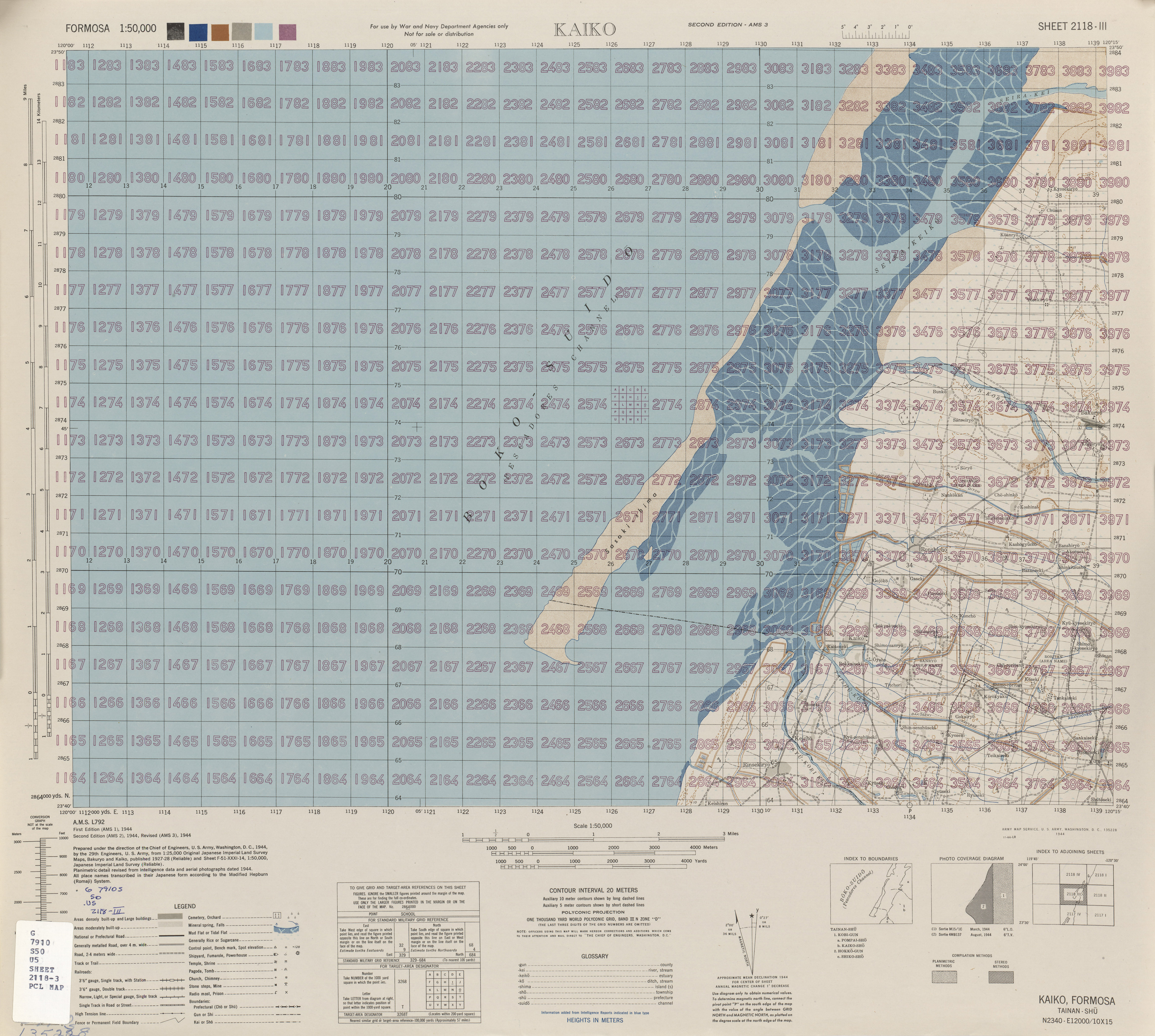 Map from Formosa (Taiwan) 1:50,000 AMS Series L792